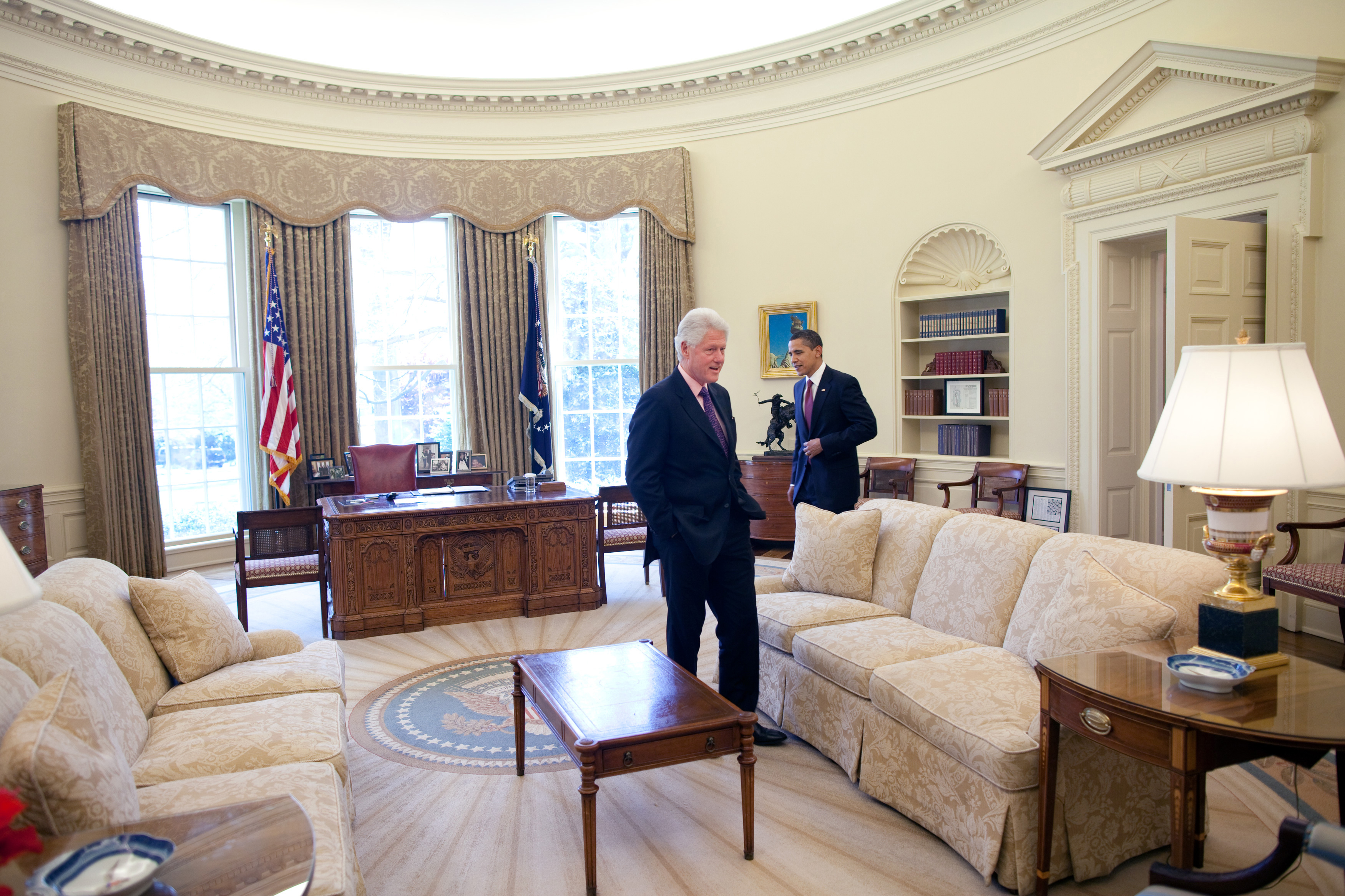 President Barack Obama meets with President Clinton in the Oval Office 4/21/09